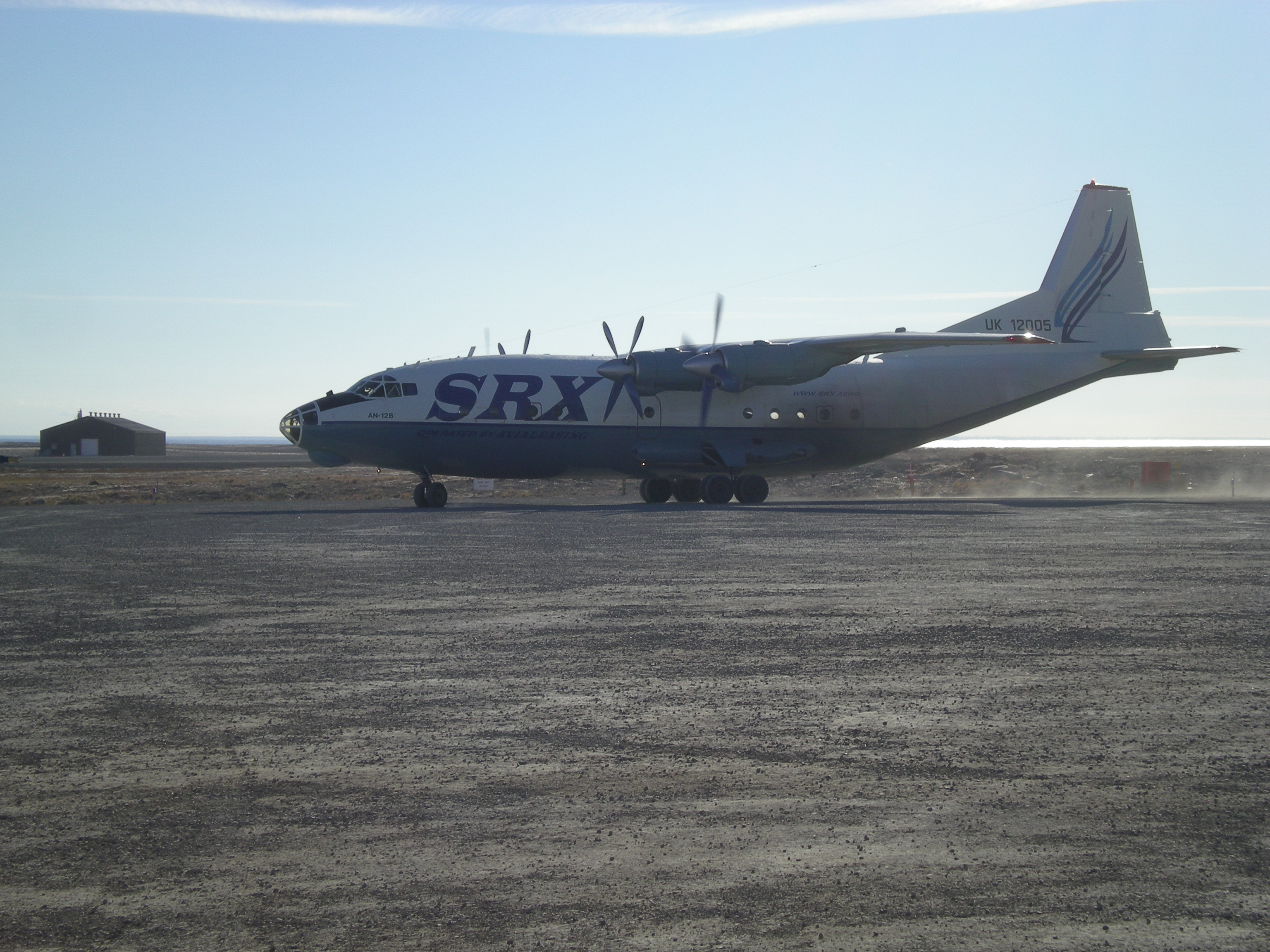 AN12 UK-12005 taxing to the fuel pumps in Cambridge Bay. The aircraft, operated by Avialeasing for SRX, had brought in material to refloat the MV Clipper Adventurer